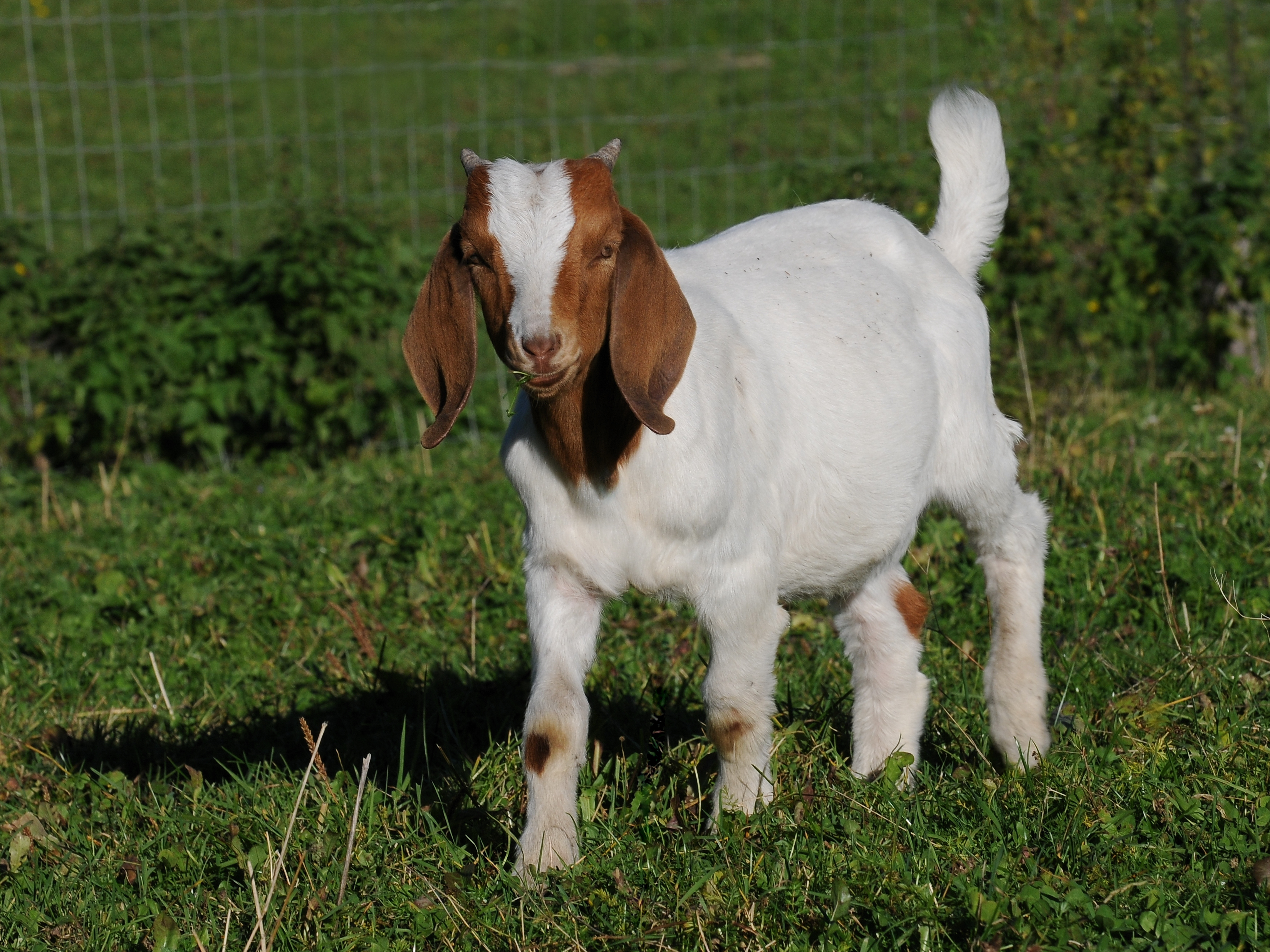 The Boer goat was developed in South Africa in the early 1900s for meat production. Their name is derived from the Dutch word "Boer" meaning farmer.